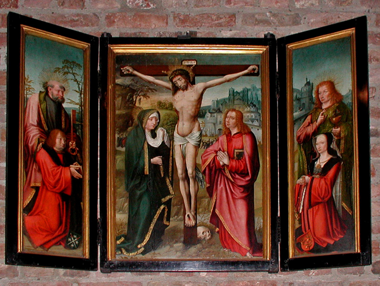 Cologne, Schürenfels Triptychon